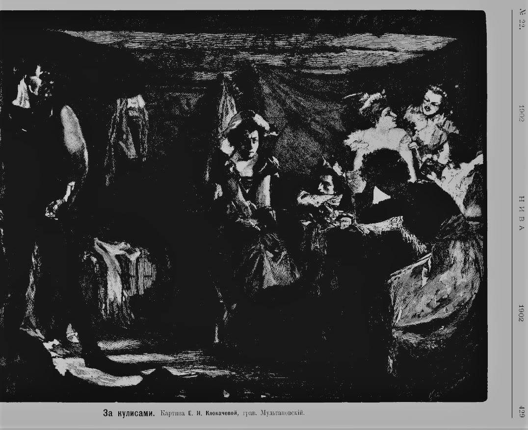 Engraving of E.N. Klokacheva painting За кулисами published in Niva, 22, 1902, pág. 429